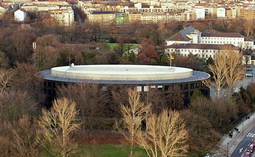 Germany, Berlin: View from the platform of the Victory Column (Siegessäule) over the Tiergarten to the Bundespräsidialamt and Bellevue Palace (Schloss Bellevue) along the Spreeweg.